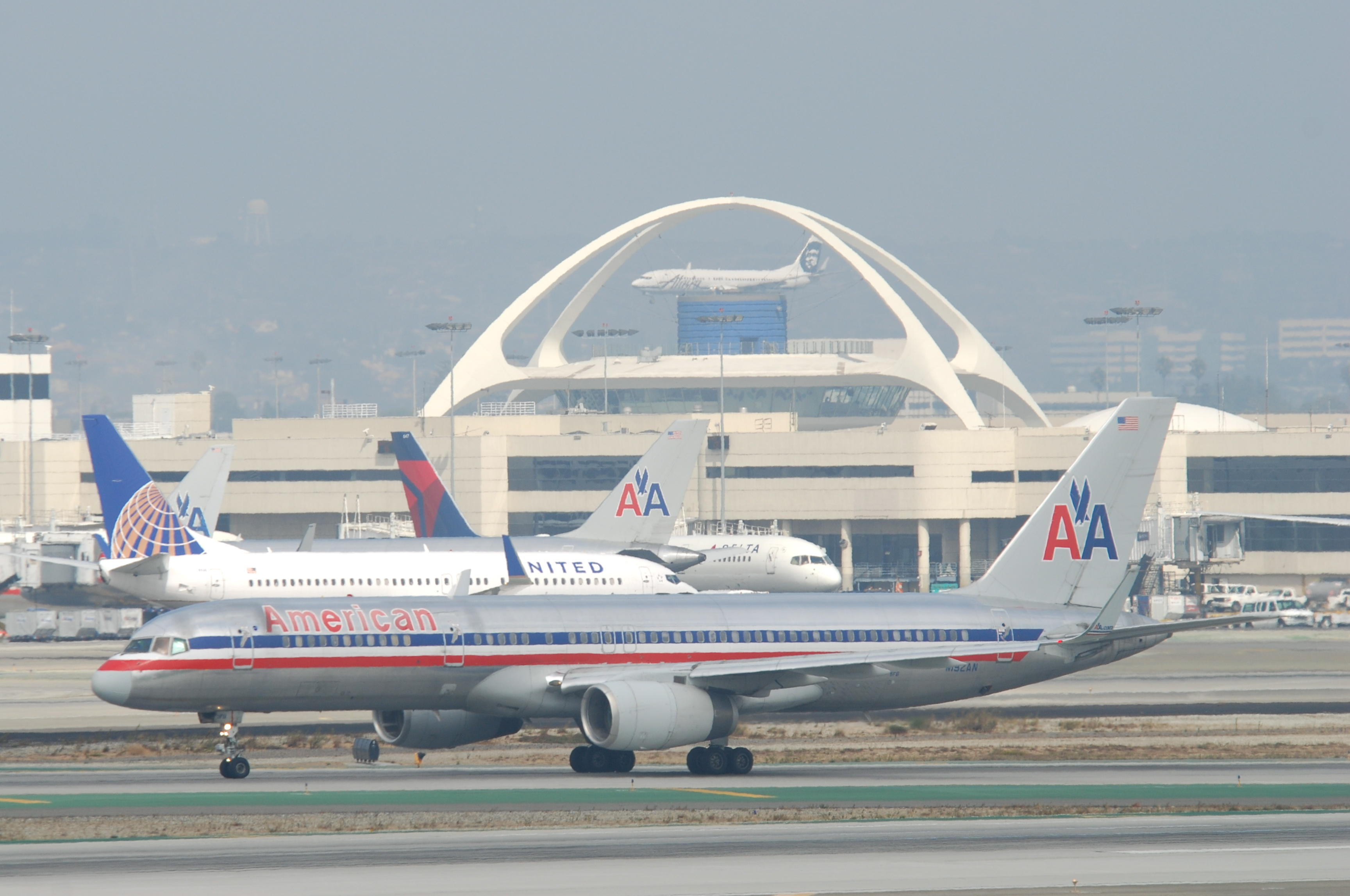 American Airlines Boeing 757-223; N192AN@LAX;10.10.2011/622od